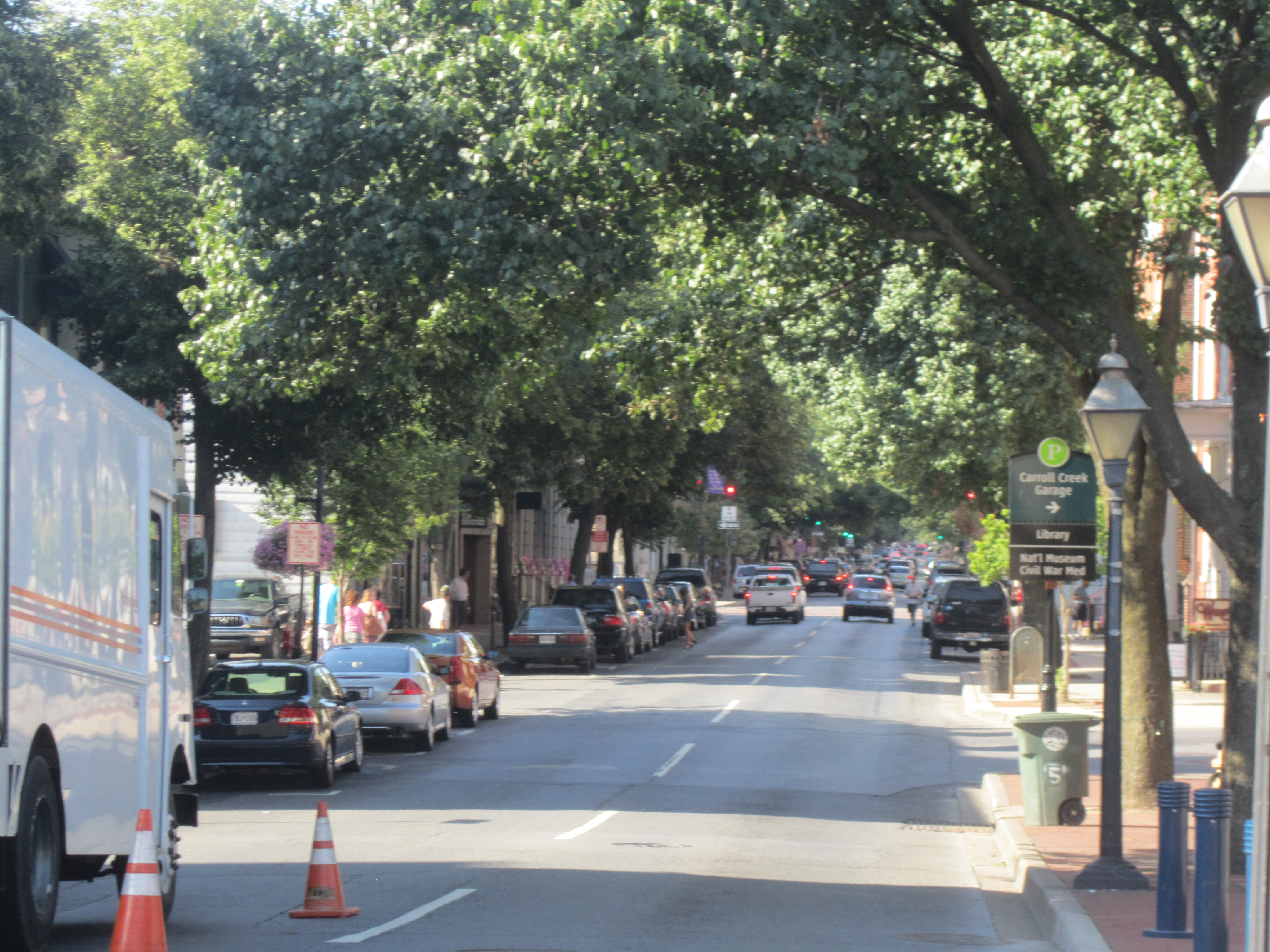 I took photo in downtown Frederick, MD.